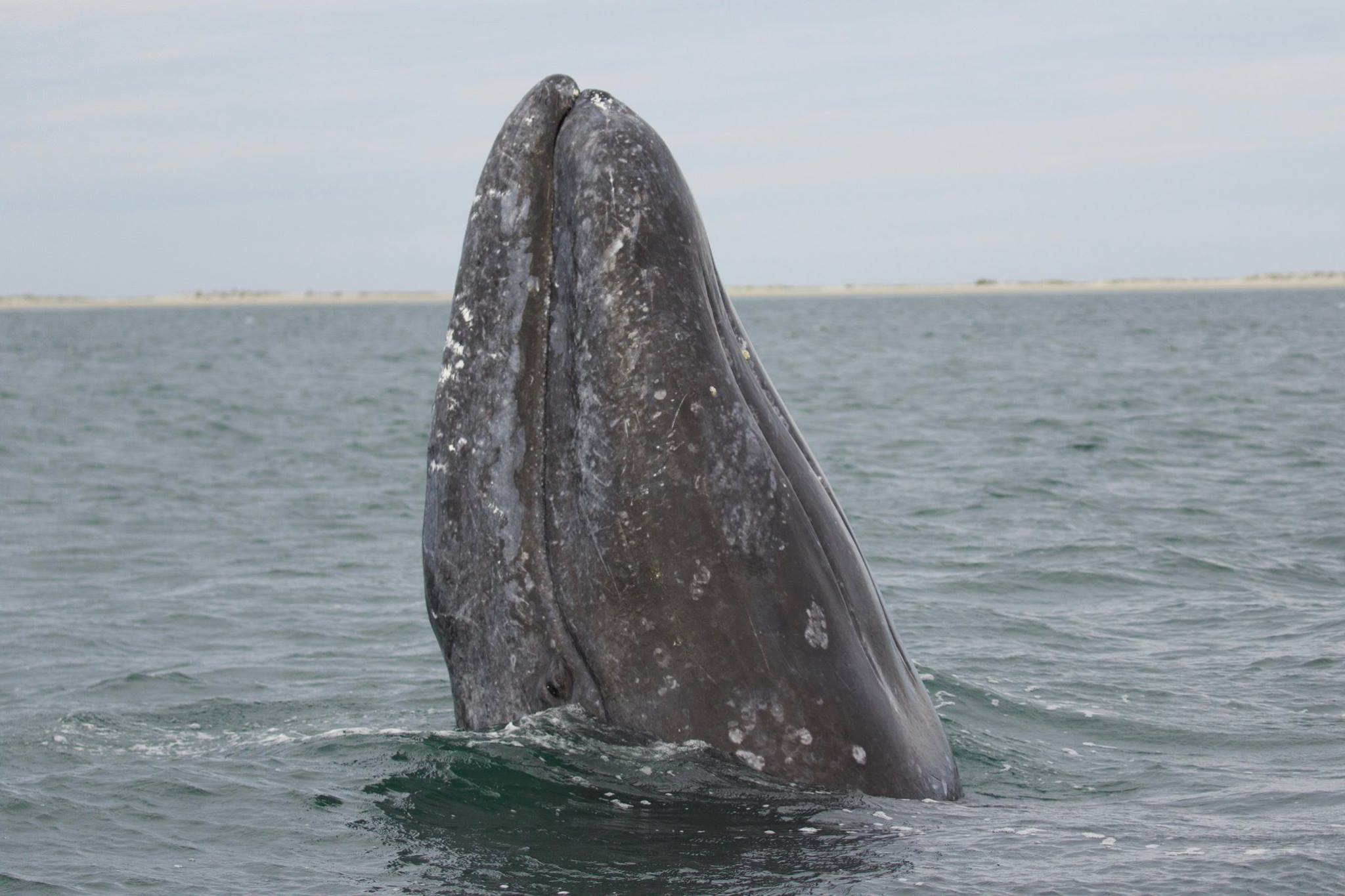 Gray Whale Spyhopping courtesy of Marc Webber/USFWS.